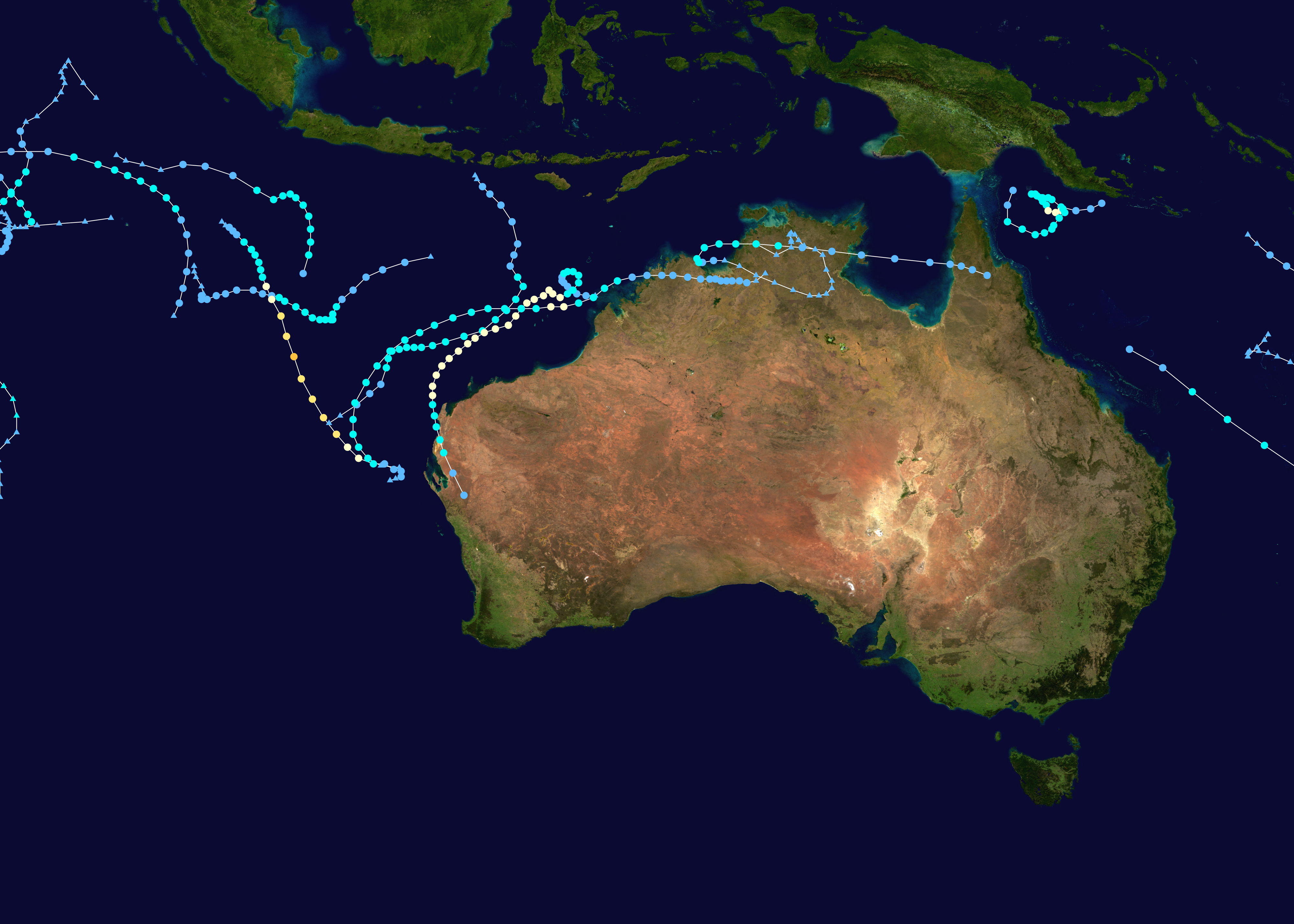 This map shows the tracks of all tropical cyclones in the 2007-08 Australian region cyclone season. The points show the location of each storm at 6-hour intervals. The colour represents the storm's maximum sustained wind speeds as classified in the Saffir-Simpson Hurricane Scale (see below), and the shape of the data points represent the type of the storm. Saffir–Simpson scale Tropical depression≤38 mph≤62 km/h Category 3111–129 mph178–208 km/h Tropical storm39–73 mph63–118 km/h Category 4130–156 mph209–251 km/h Category 174–95 mph119–153 km/h Category 5≥157 mph≥252 km/h Category 296–110 mph154–177 km/h Unknown Storm type Tropical cyclone Subtropical cyclone Extratropical cyclone / Remnant low / Tropical disturbance / Monsoon depression